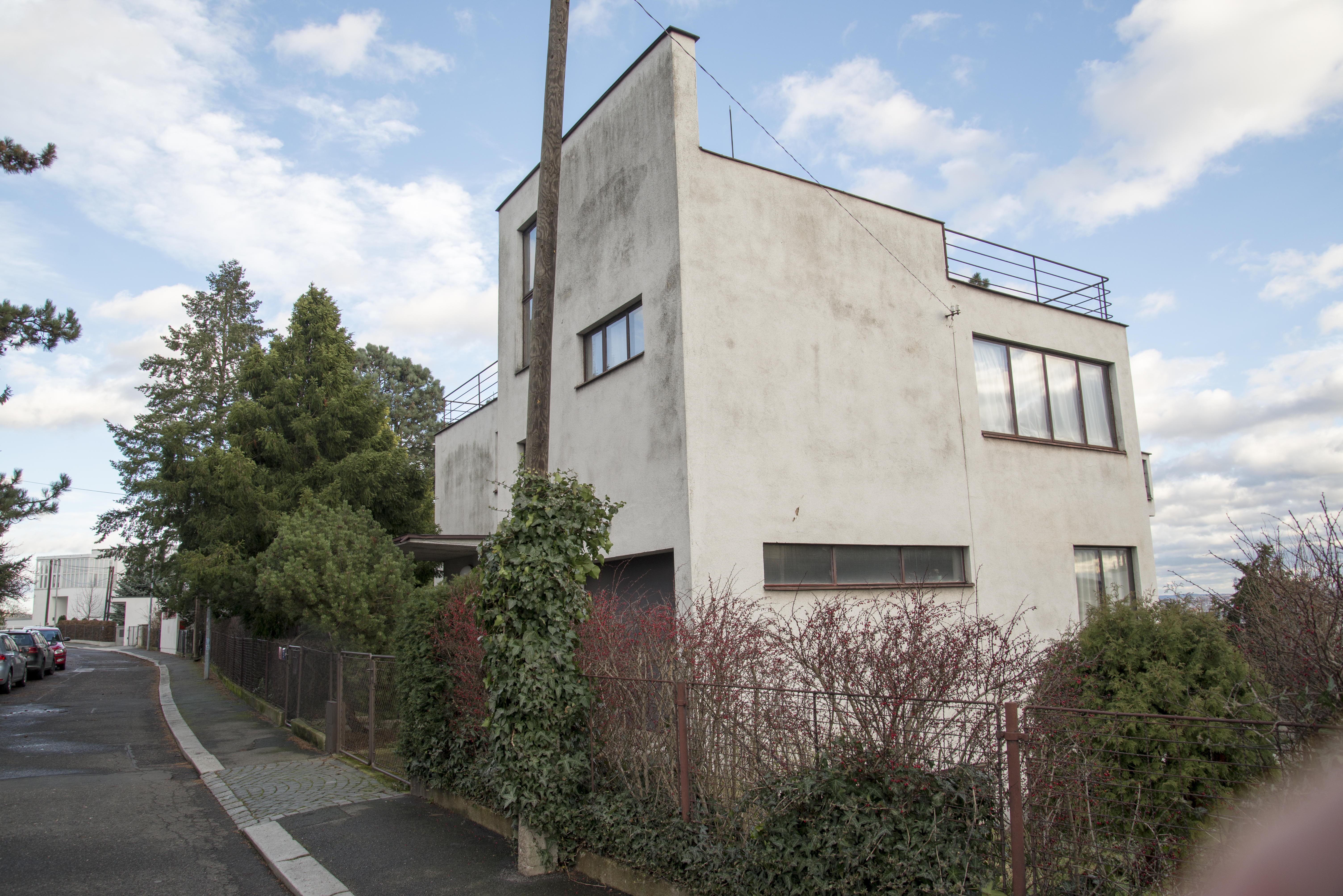 Osada Baba (Baba Functionalism colony in Prague) - House Balling